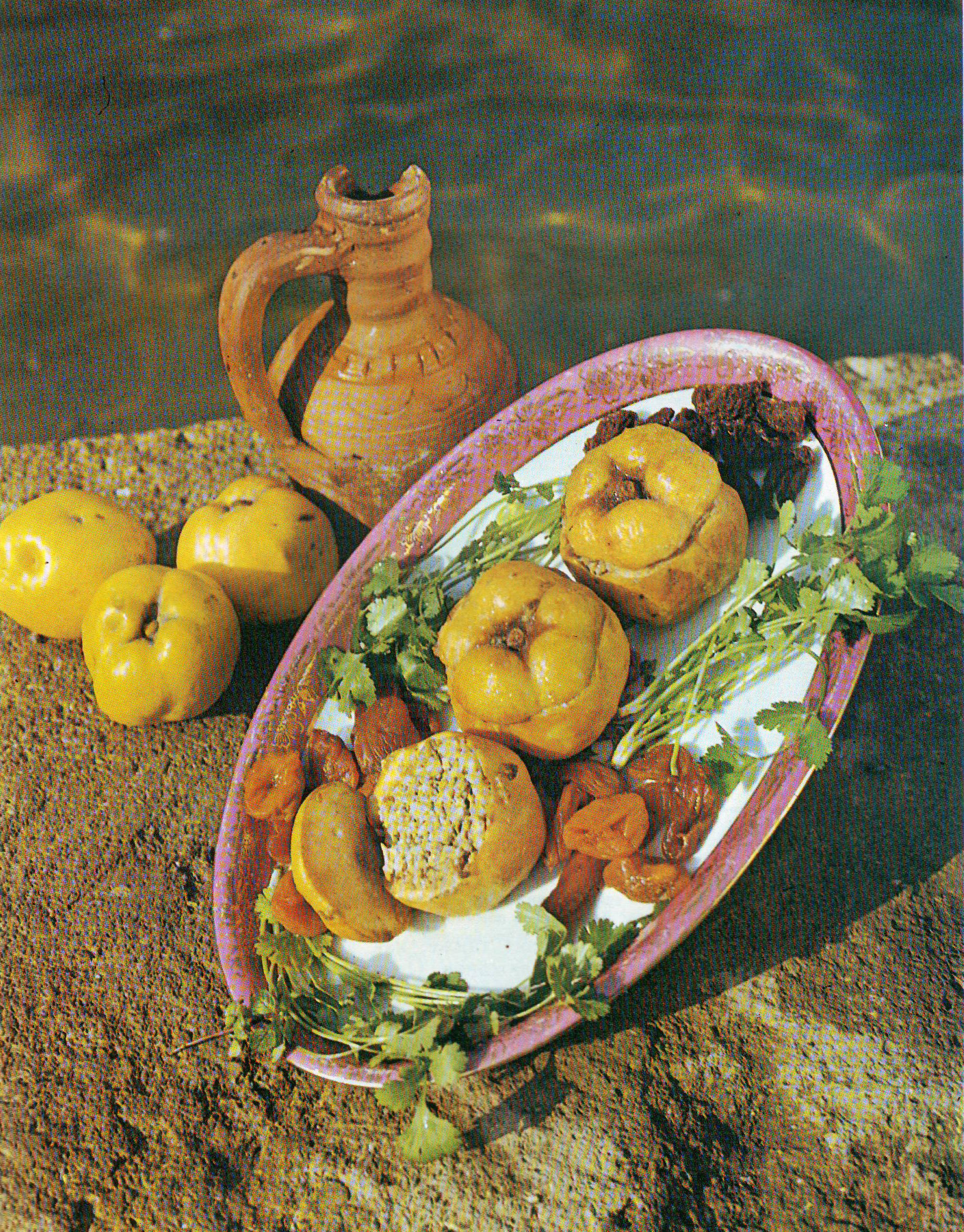 Cuisine of Azerbaijan: Ayva dolma (stuffed quince)